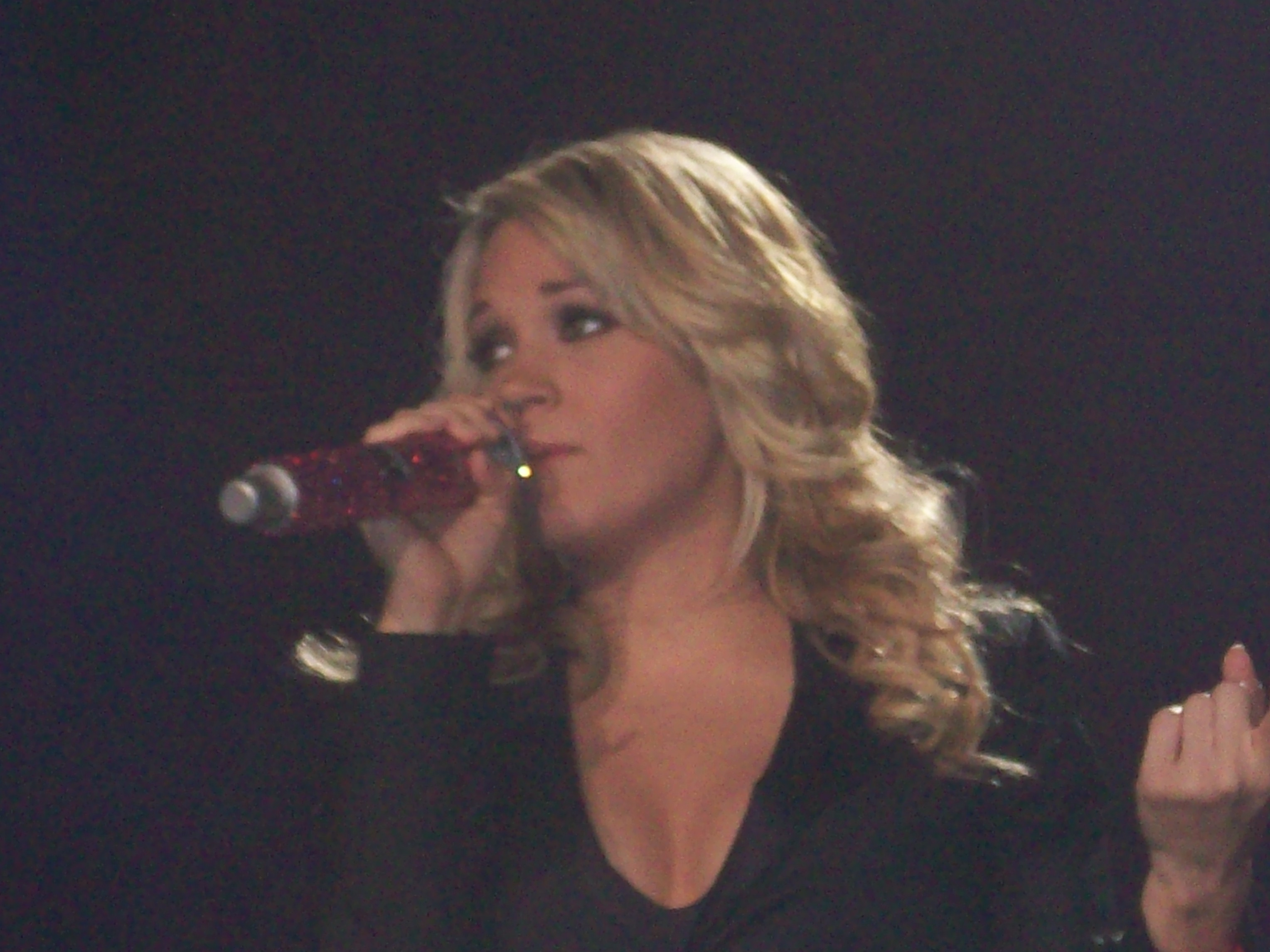 carrie underwood...little big town 234